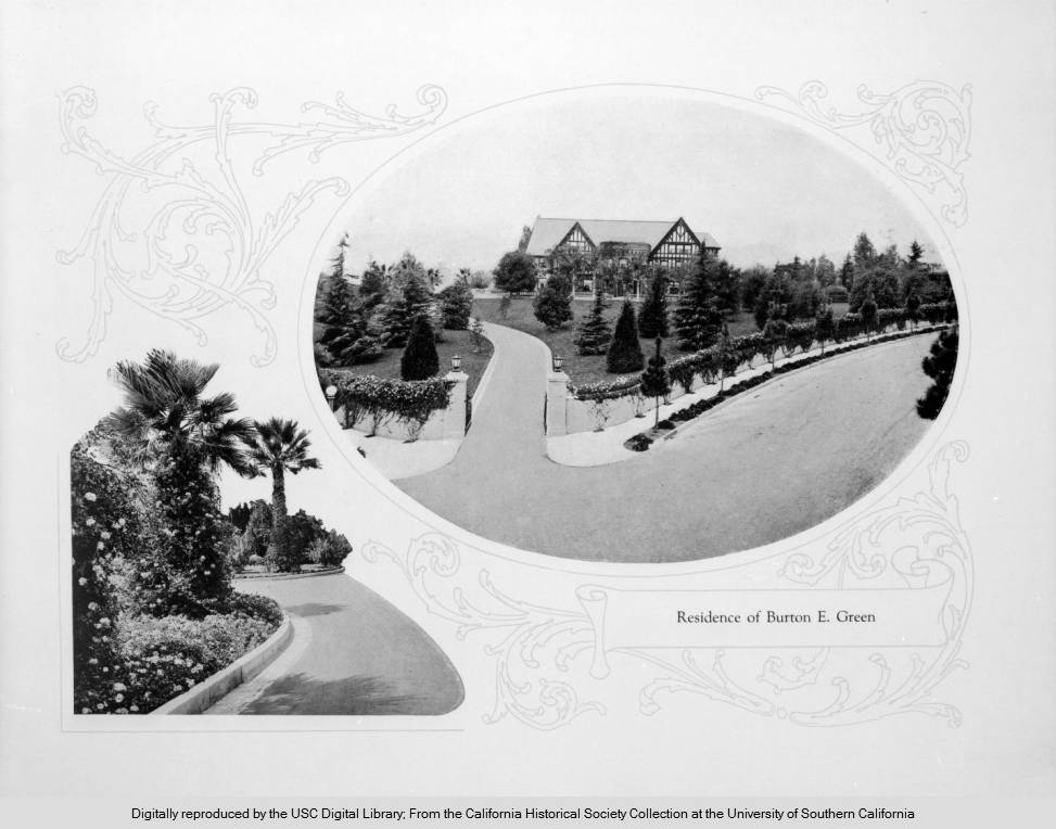 Photograph of a composite view of Burton E. Green's residence in Beverly Hills from an undated real estate pamphlet. An oval photograph in the upper right section of the image shows the house from the street. The house can be seen in the distance and is a large, two-story, half-timber building with a steeply sloped roof. At left, a driveway leads onto the grounds though a low concrete wall. In the lower left corner of the image, a triangular photograph shows palm trees along a dirt road. The area around the two photographs is decorated with abstract drawings, while the words "Residence of Burton E. Green" appear on a scroll in the bottom right corner.